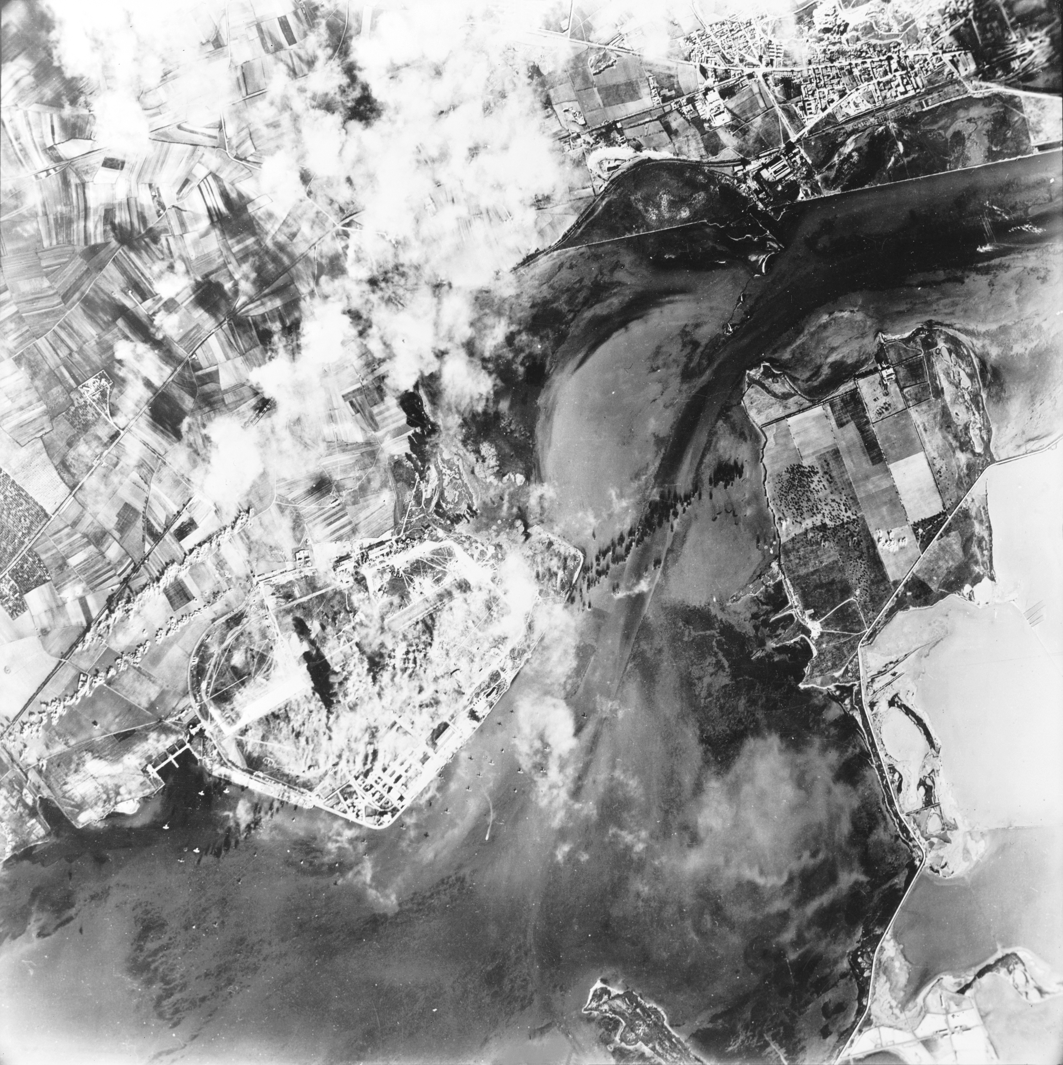 Aerial photo of the Italian airbase at Cagliari, Sardinia (Italy), under attack. Cagliari was heavily bombed in February 1943.